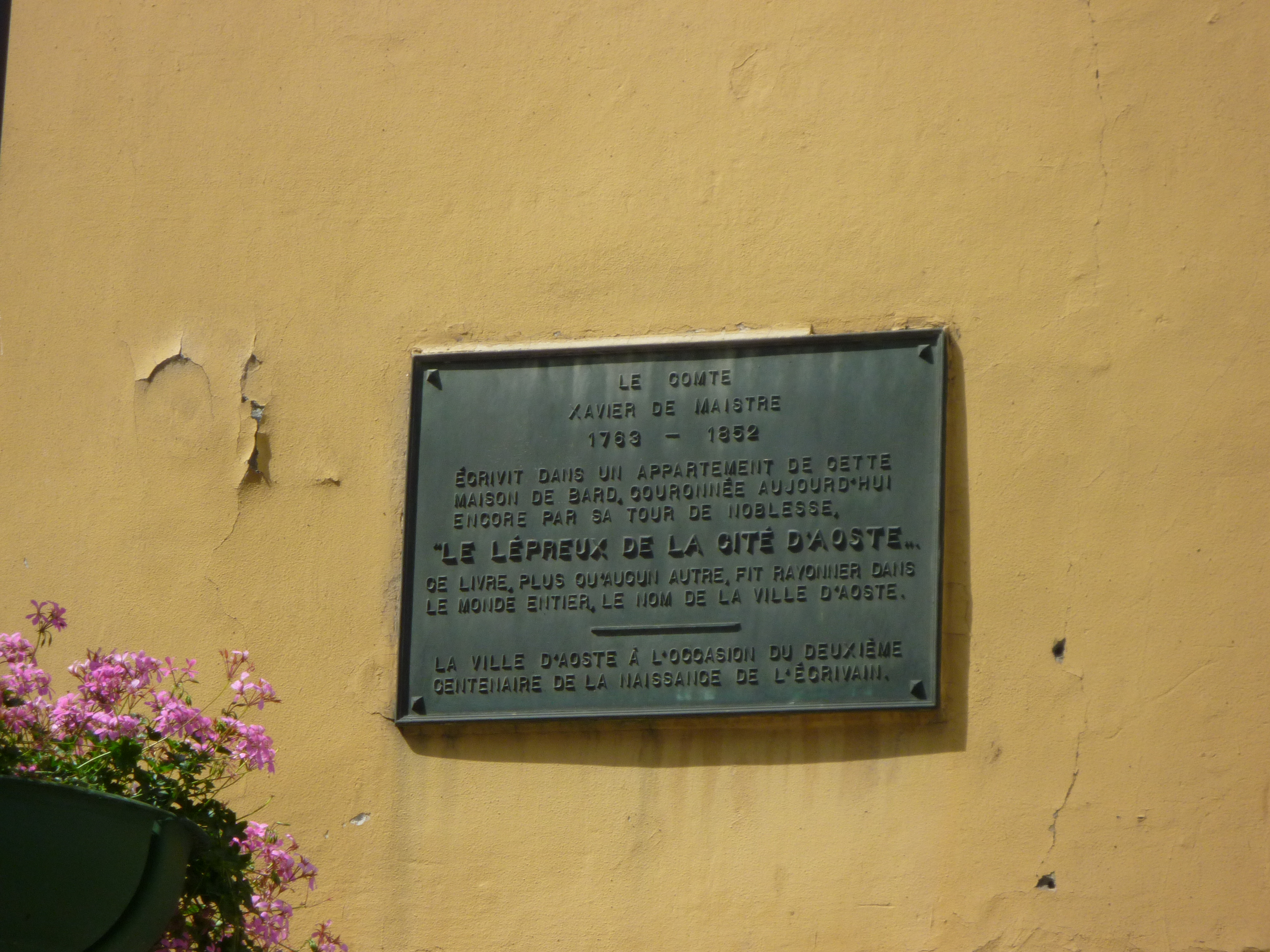 Plaque en souvenir de Xavier de Maistre, Aoste.